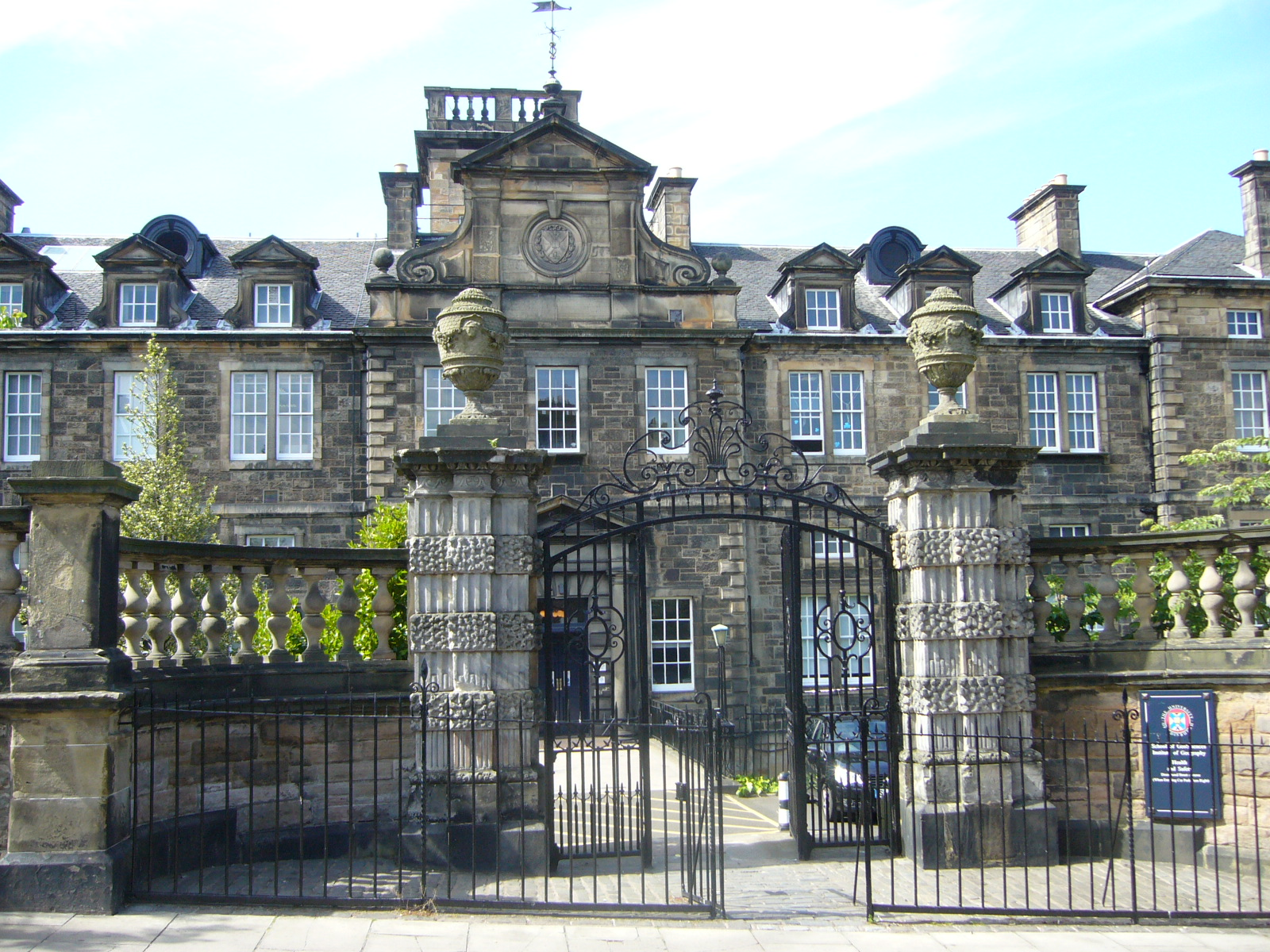 Once part of the second Royal Infirmary, this building, designed by David Bryce (1803-76), now houses the University's Geosciences Department.